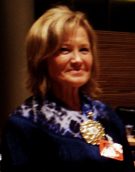 Northern Sámi politician and lecturer Irja Seurujärvi-Kari at the Sámi and Maori Language Revitalization Seminar in Helsinki, Finland on September 13 2011